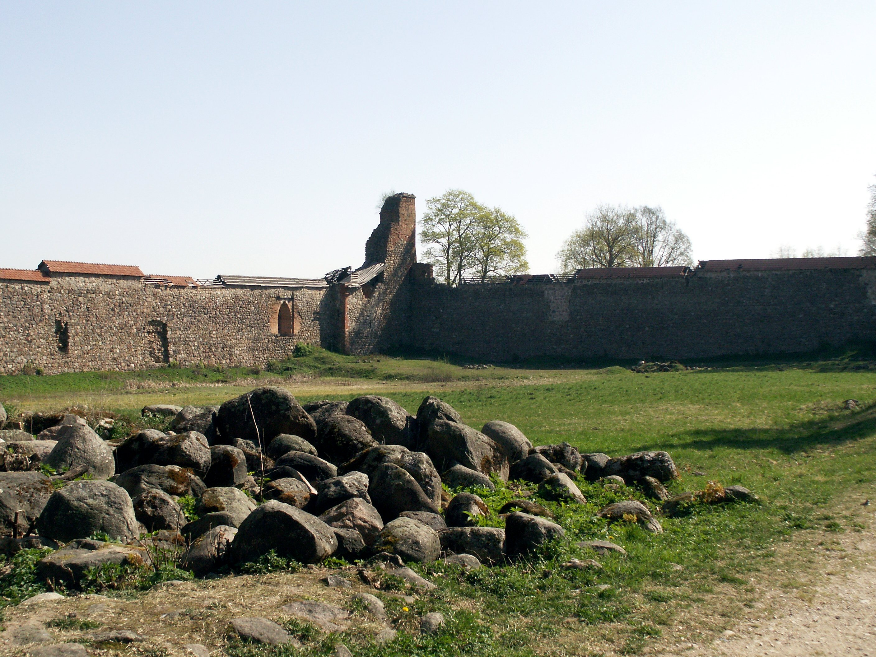 Medininkai Castle, Vilnius district, Lithuania